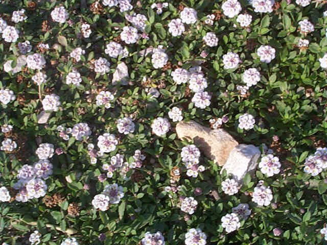 A photograph of the plant which produces the intensely sweet sesquiterpene hernandulcin.